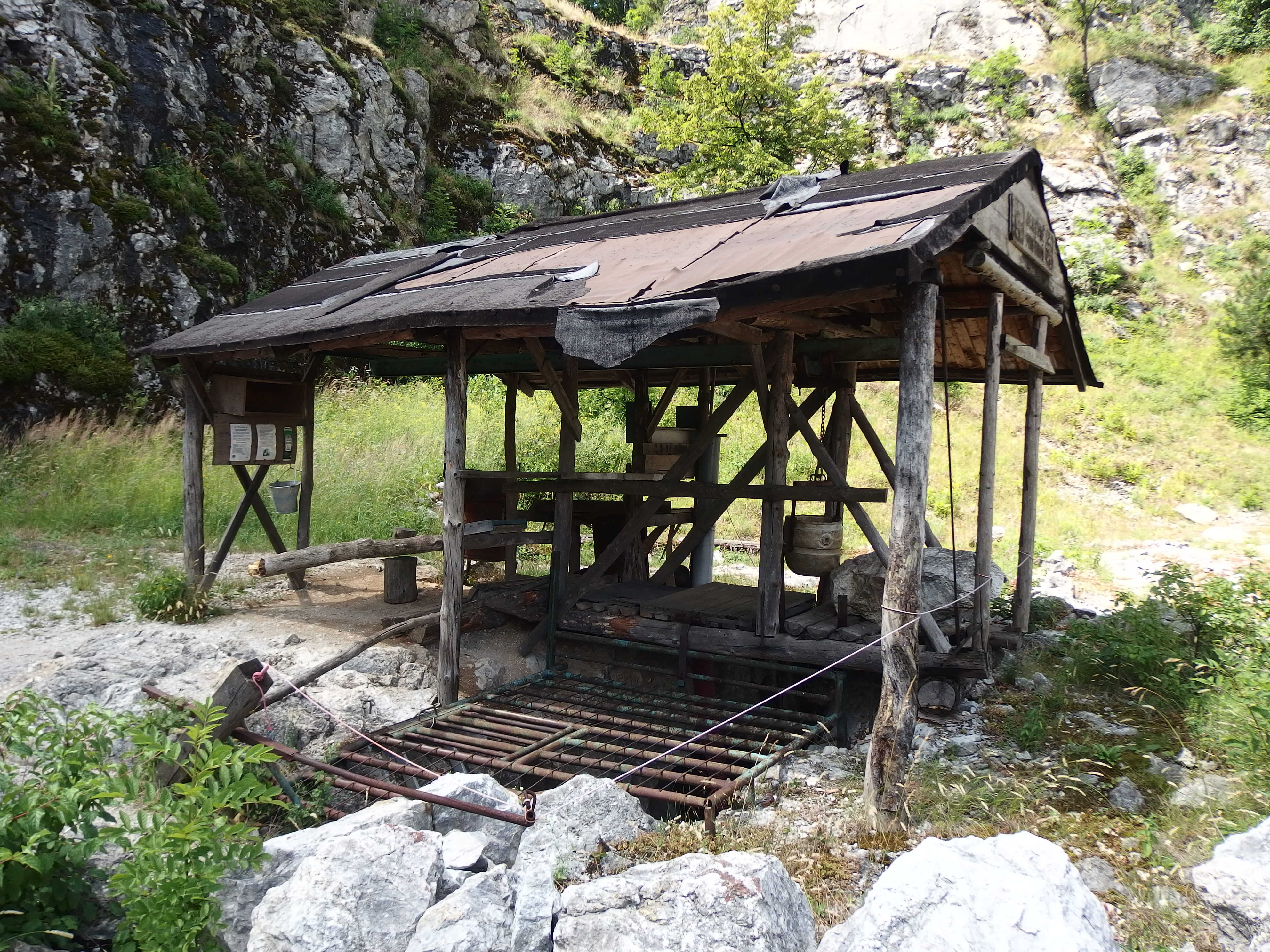 Štramberk, Nový Jičín District, Czech Republic. Botanic garden and arboretum.